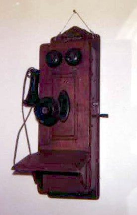 Antique wooden wall telephone with hand crank